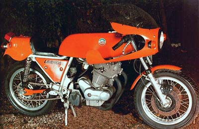 Laverda 750 SFC of Perry Bushong's Laverda SFC 750 in Fort Worth Texas